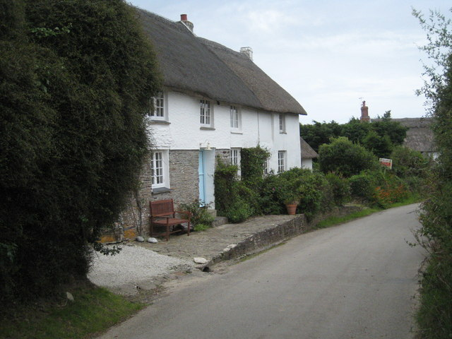 Thatched cottages at Treworthal Some of several thatched houses in this attractive hamlet.